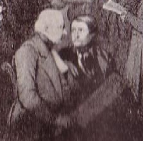 Detail of the Lithography Le Match Staunton – Saint-Amant, 19ème partie, 16 décembre 1843